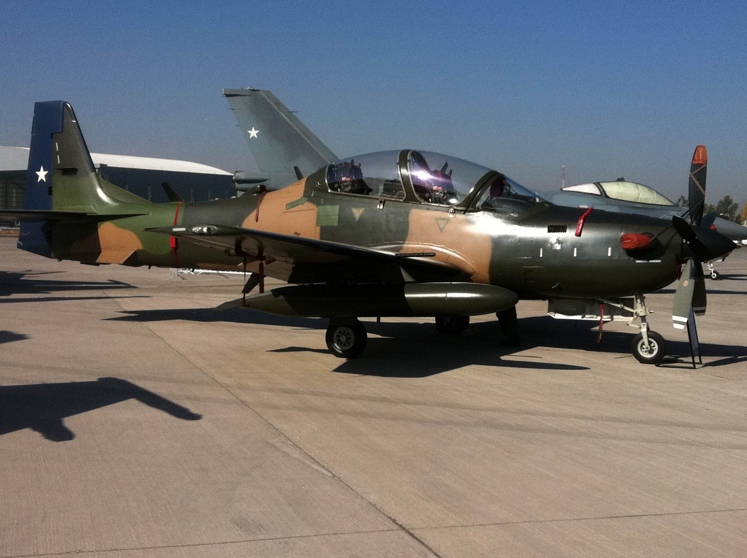 Chilean Air Force EMB-314 at Comodoro Arturo Merino Benítez International Airport during Fidae 2012.